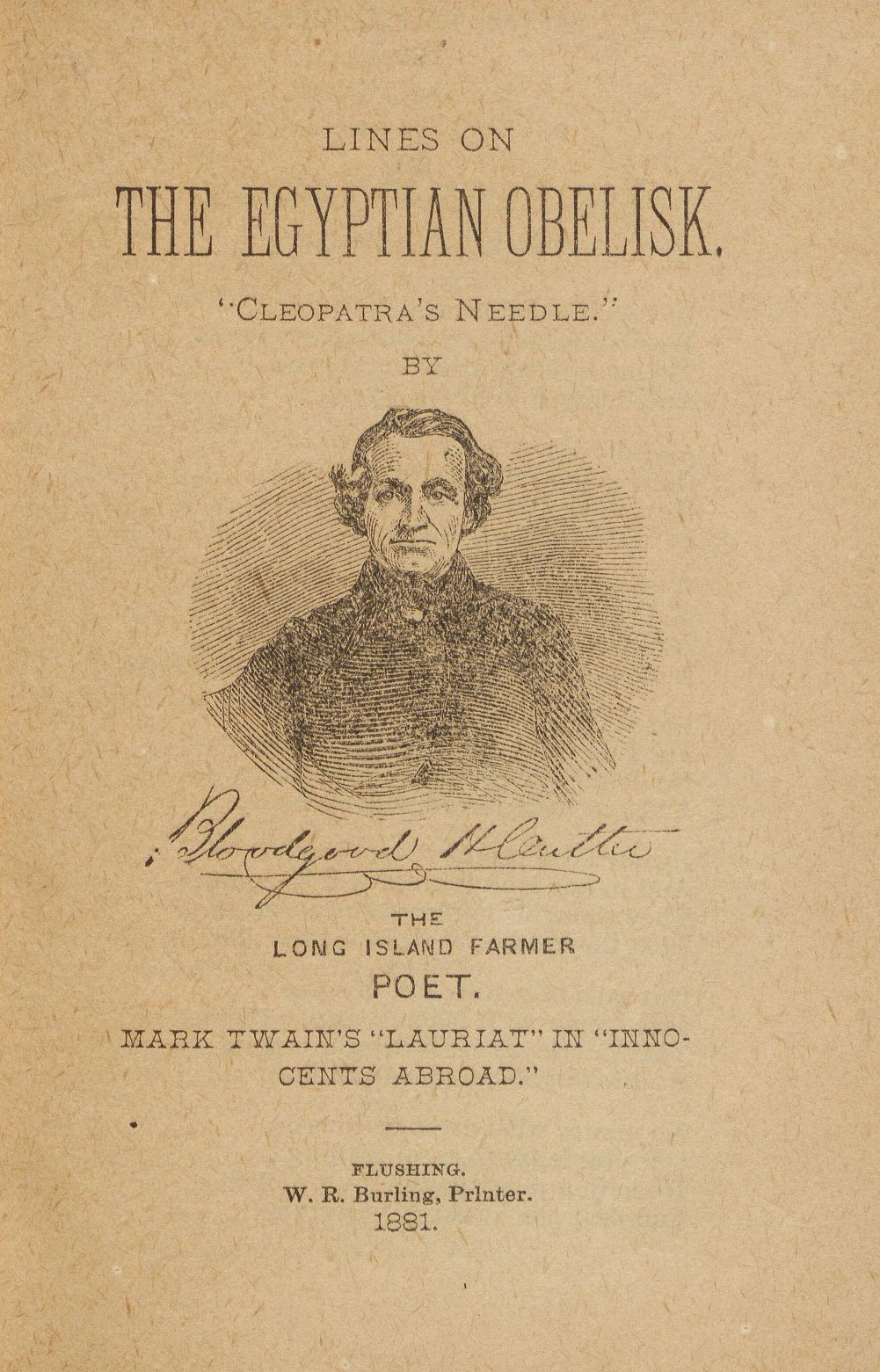 Title page: Lines on the Egyptian obelisk: "Cleopatra’s Needle", Flushing: W. R. Burling, 1881. By Bloodgood H. Cutter (1817-1906). Includes portrait of the author. Scan of full book available: *AC85 C9814 881ℓ, Houghton Library, Harvard University